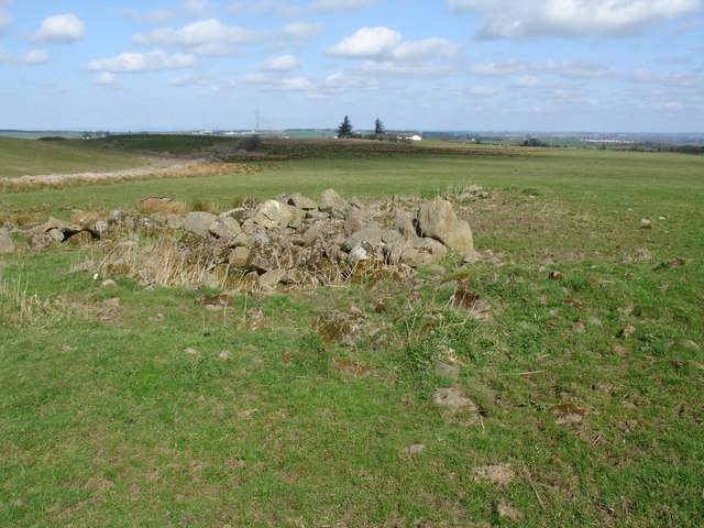 Auchencloigh Castle (Ruin) Now reduced to a pile of rubble, even the nearby farmhouse that shares its name suffered a similar fate. The ground nearby (former opencast coal workings) meant the buildings were not treated with respect, is being returned to agricultural grazing land.